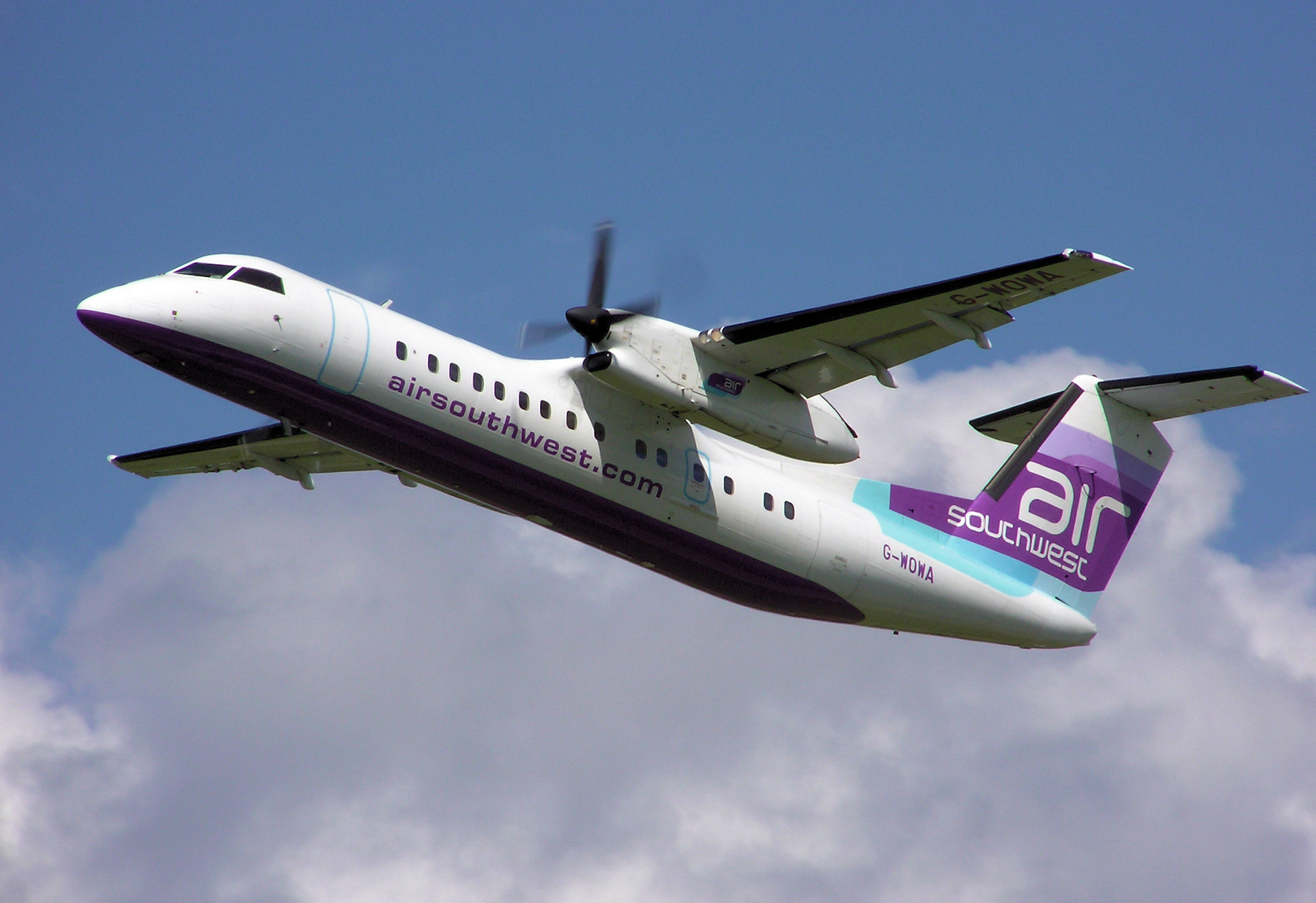 De Havilland Canada Dash 8 (G-WOWA) taking off from Bristol International Airport, England Taken by Adrian Pingstone in May 2006 and released to the public domain.